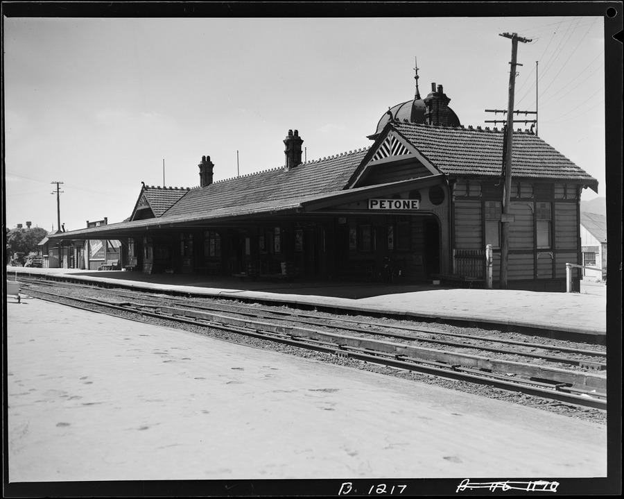 Title: CAPTION: Petone Station building view emphasis old low platforms. PHOTOGRAPHER: J.F. Le Cren DATE: March 1951 Archway Item ID:R25618203 Archway Series Number:6390 Provenance:Transferred by agency AAVK Material Type: Digitised